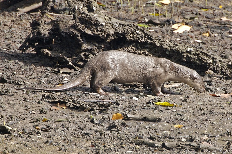 Smooth-coated Otter Lutrogale perspicillata Location: Sungai Buloh Wetland Reserve 2nd. December 2007 _Q0S1861a